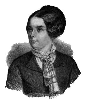 Georgina Wilson